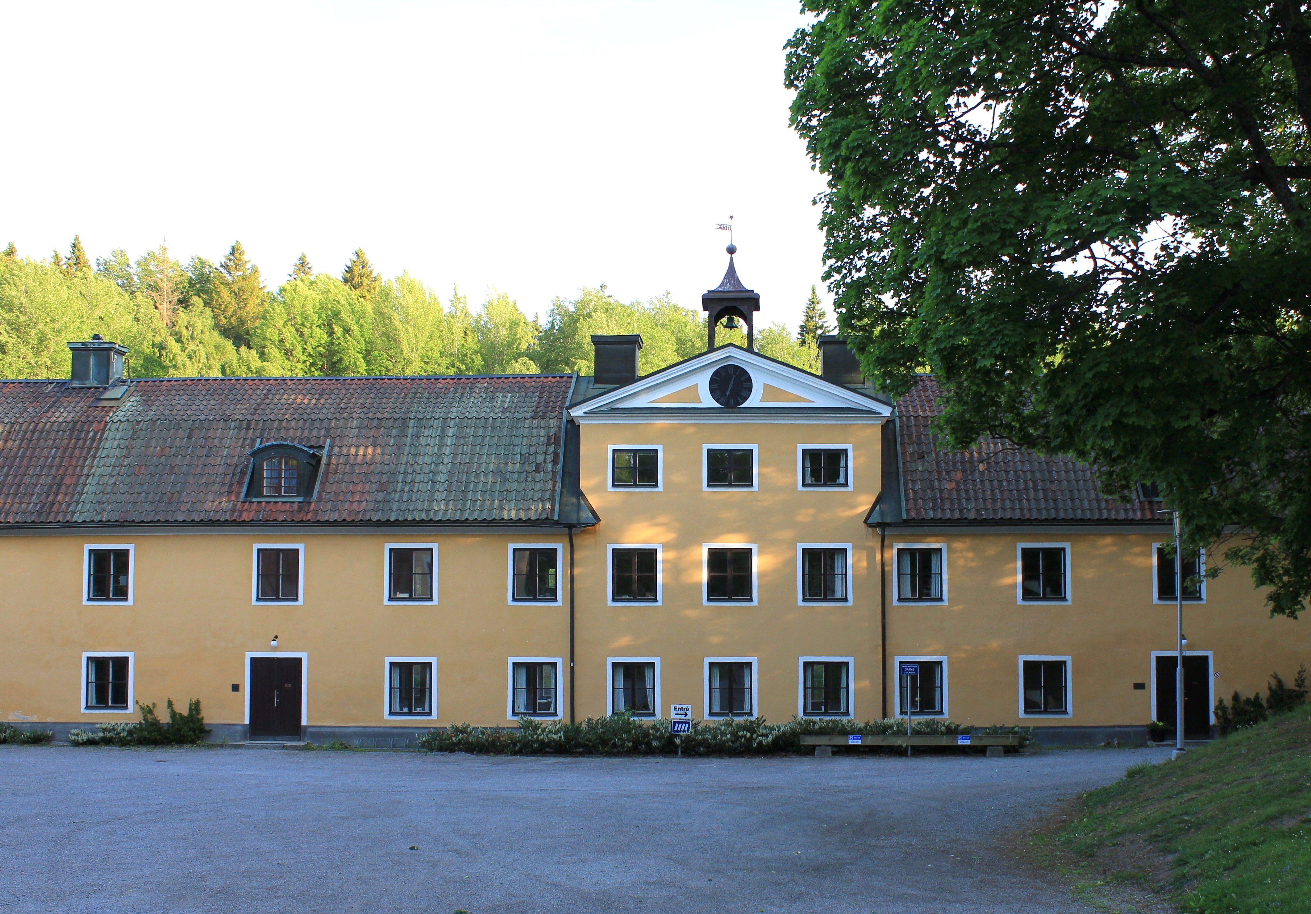 Tumba pappersbruk, Klockhuset, Tumba, Sweden.